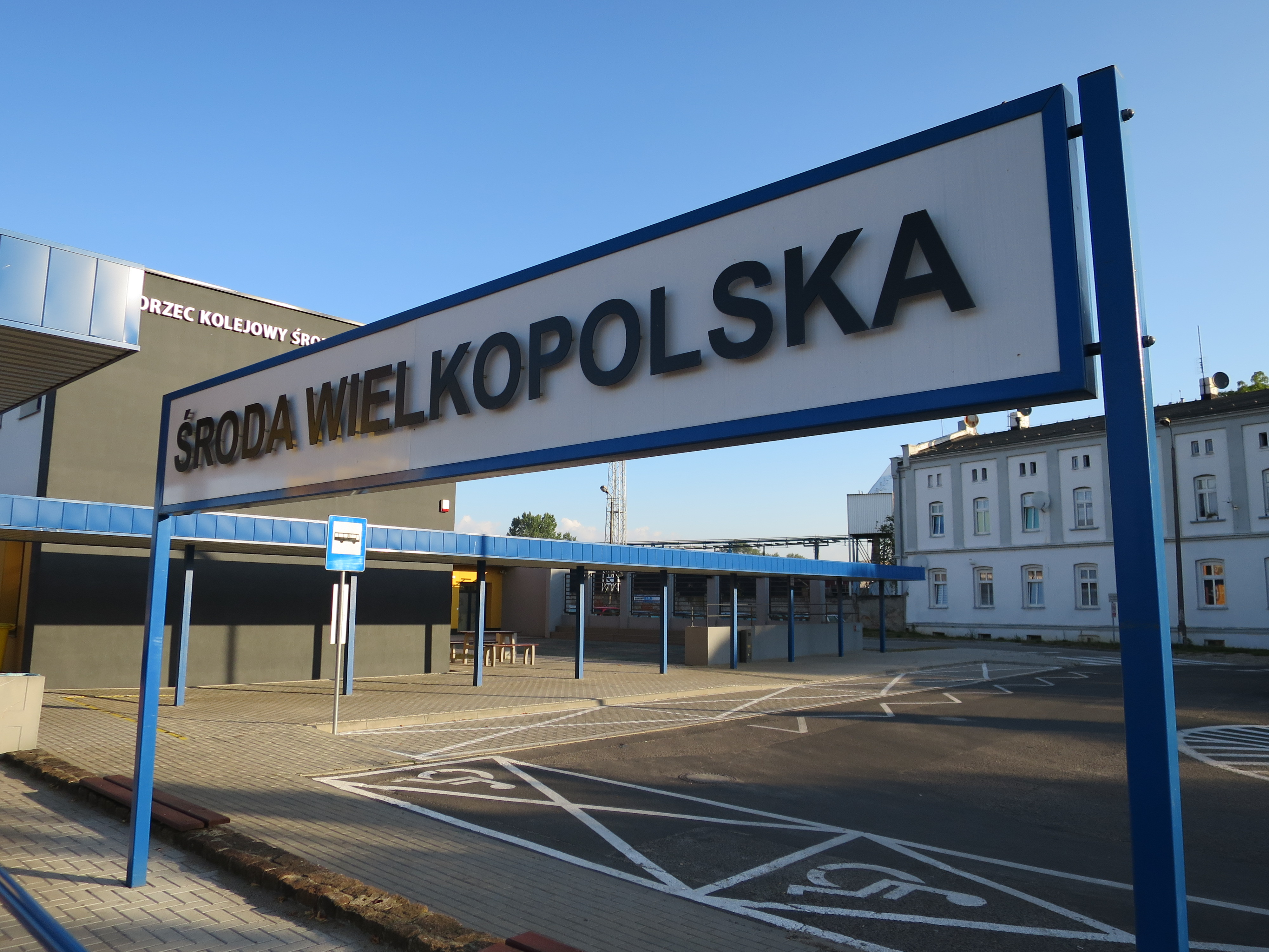 Środa Wielkopolska This photo was taken during Railway Wikiexpedition 2015 set up by Wikimedia Polska Association in cooperation with Fundacja Grupy PKP.You can see all photographs in category Wikiekspedycja kolejowa 2015.